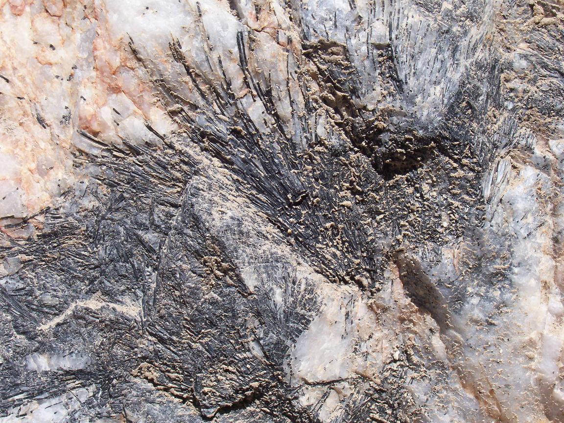 Turmalina en las serranias de Villa Dolores (Cordoba, Argentina)